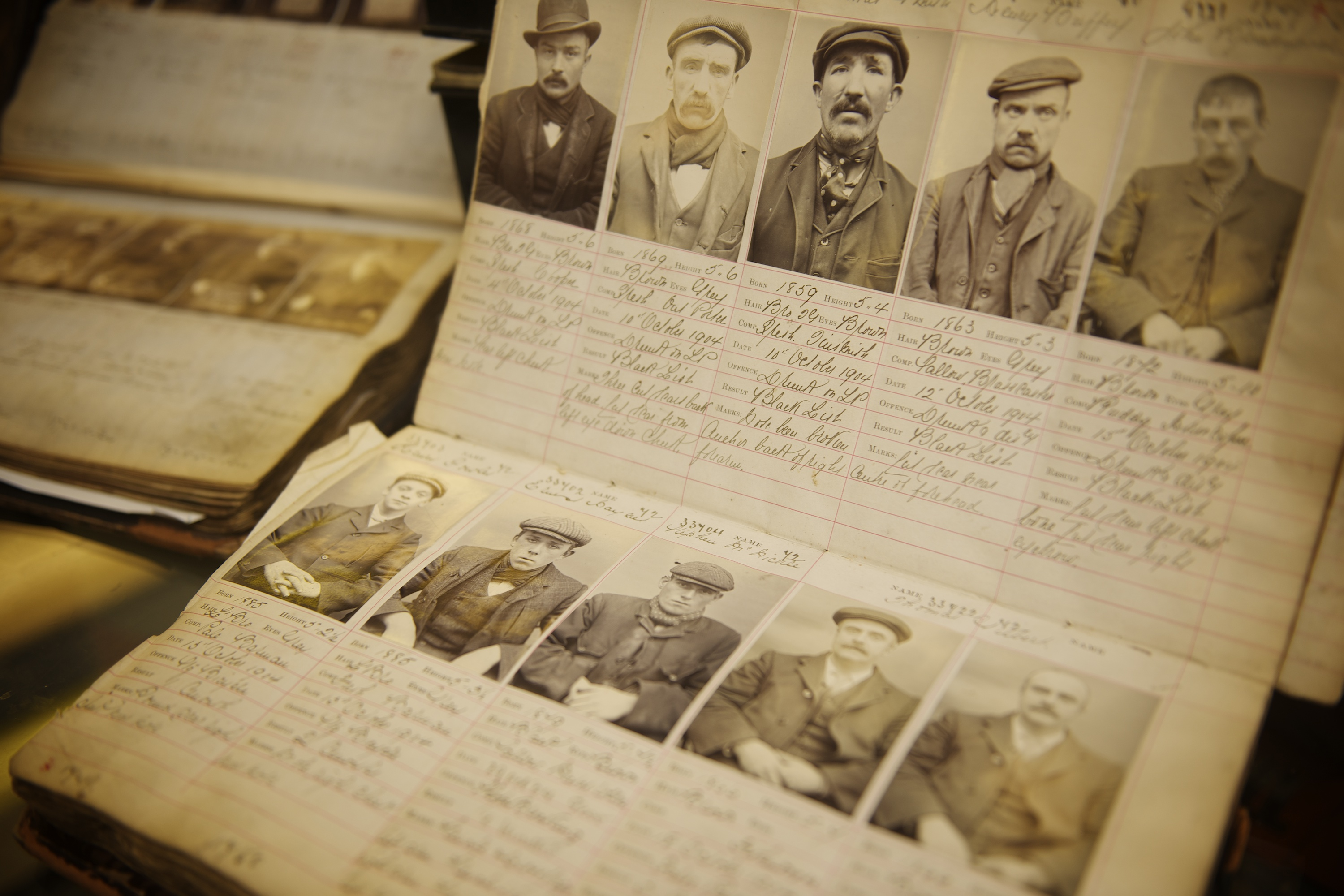 The Peaky Blinders – street-based Birmingham gang from the 19th century who slashed victims across the face with razor blades sewn in peaks of their caps. Gang members including David Taylor - who was jailed at the age of 13 for carrying a gun - displayed this classic look. Other Peakies included baby-faced Harry Fowles, Ernest Haynes and Stephen McNickle who were all jailed.